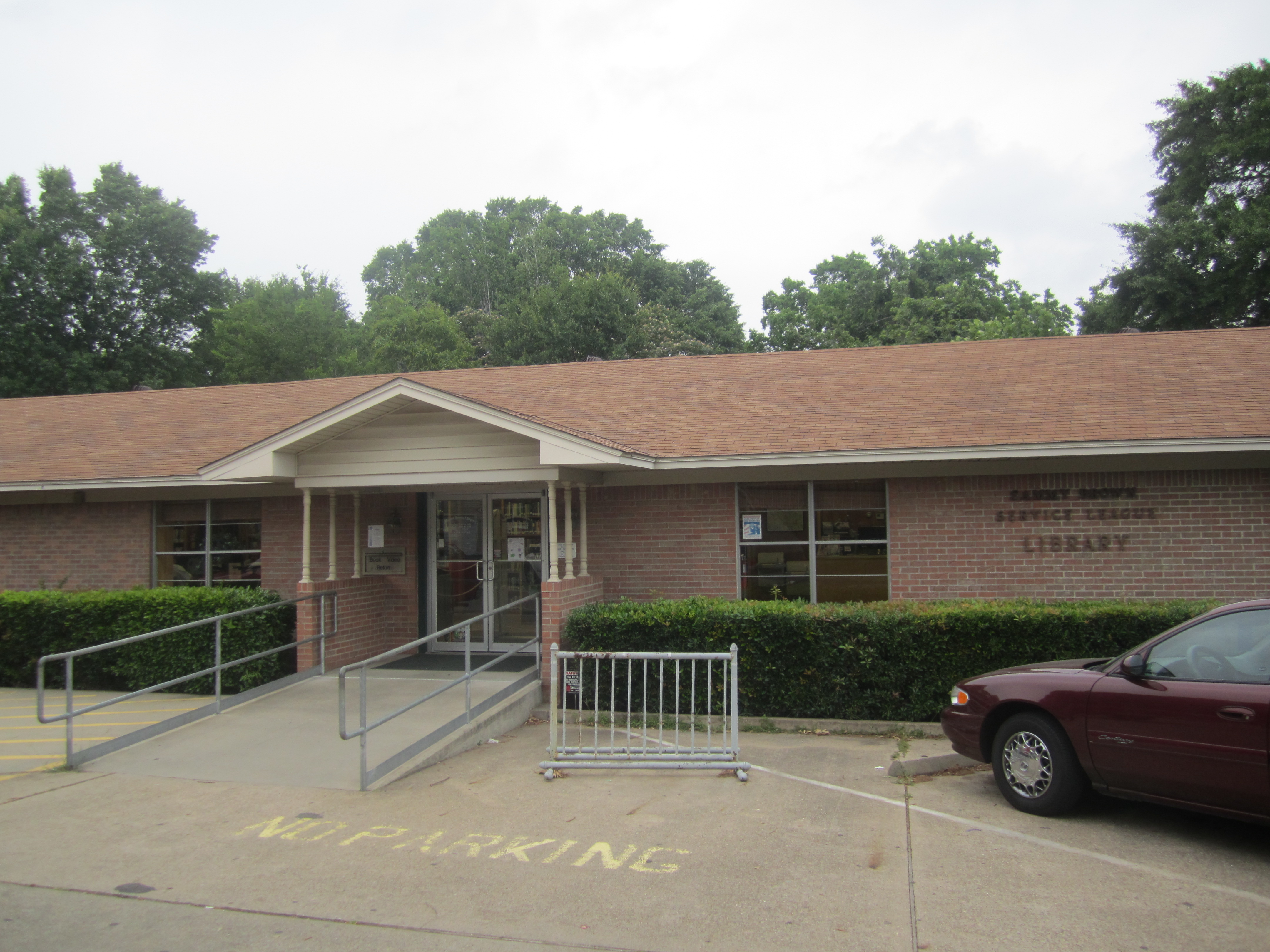 Sammy Brown Library in Carthage Texas in May 2011. I took photo with Canon camera in Carthage, TX.